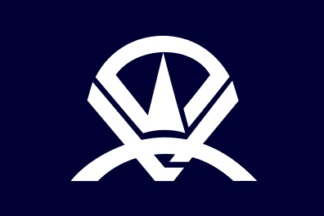 Flag of Nose Osaka